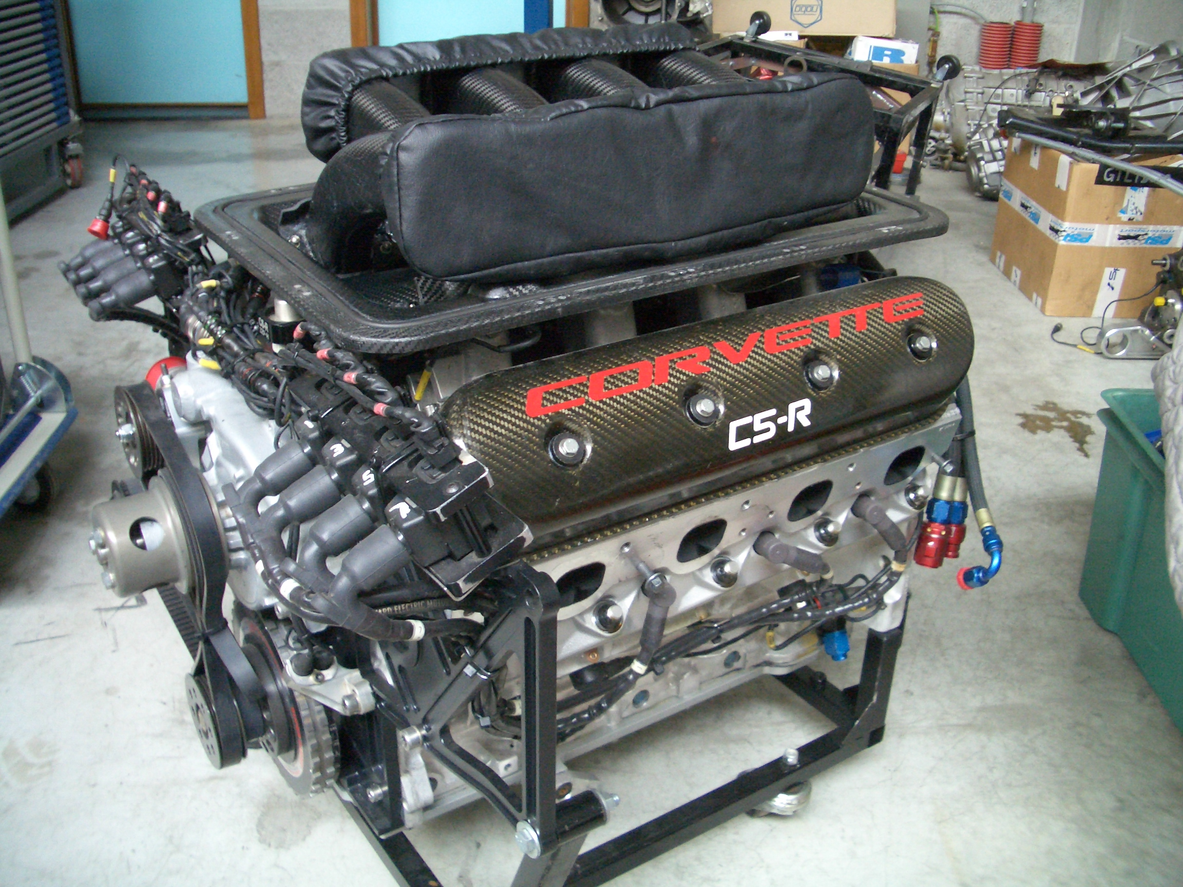 MOTOR